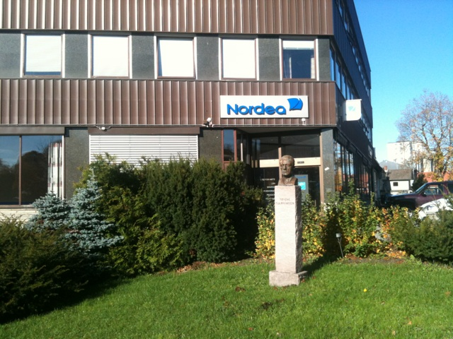 Entrance of the Nordea bank in Mysen. The bust in front depicts norwegian novelist Trygve Gulbranssen and was unveiled 15th of June 1985 by Culture minister Lars Roar Langslet. The artist is Arne Durban.